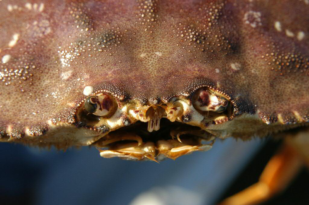 Dungeness Crab Cancer magister